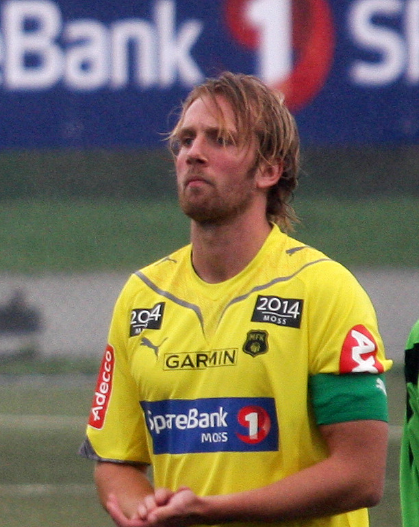 Lars Øvrebø, Player of Moss Fotballklubb